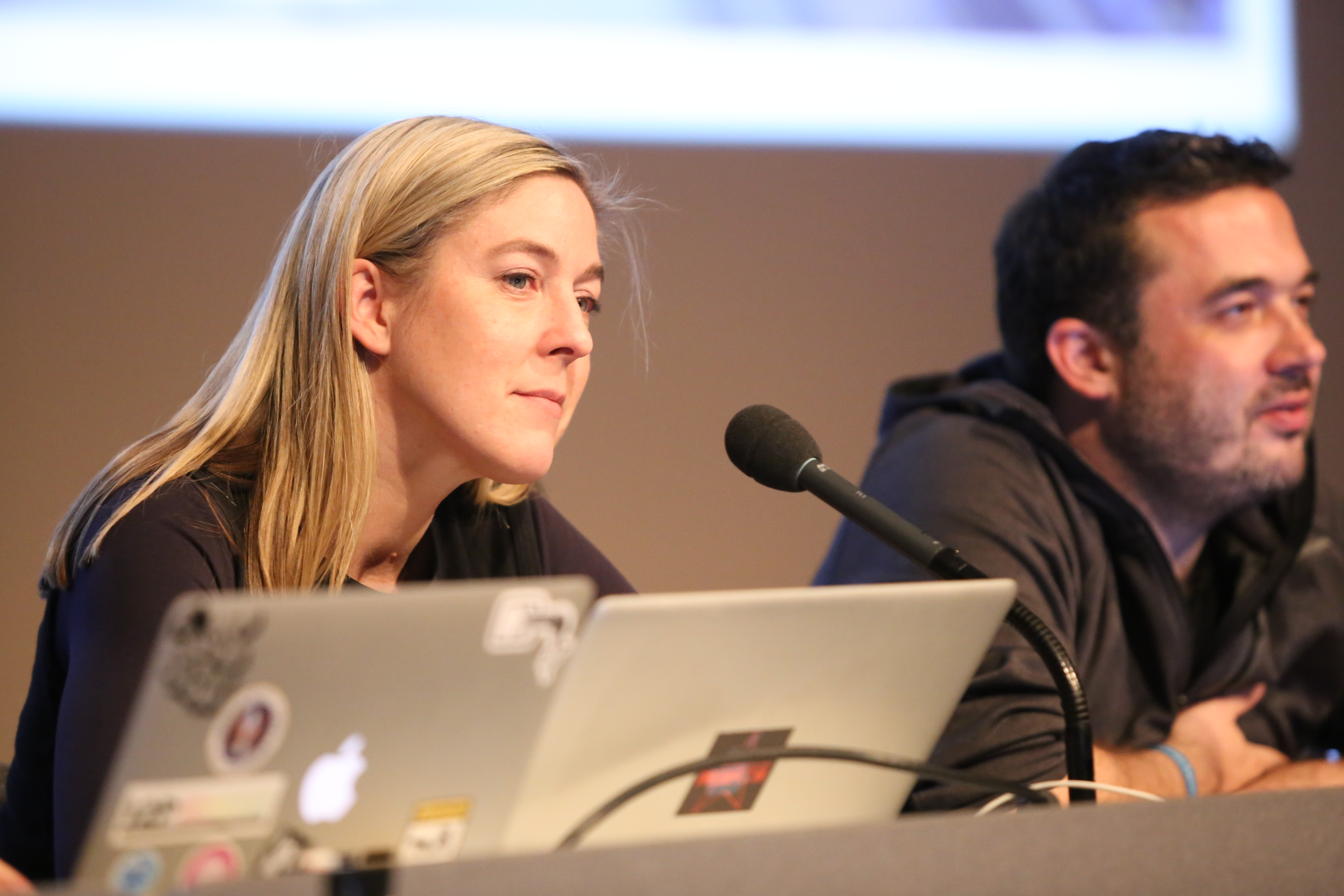 End of the year review for the Chaos Computer Club at the 30th Chaos Communication Congress in Hamburg, 2013. With Linus Neumann, Constanze Kurz and Frank Rieger (from left to right).